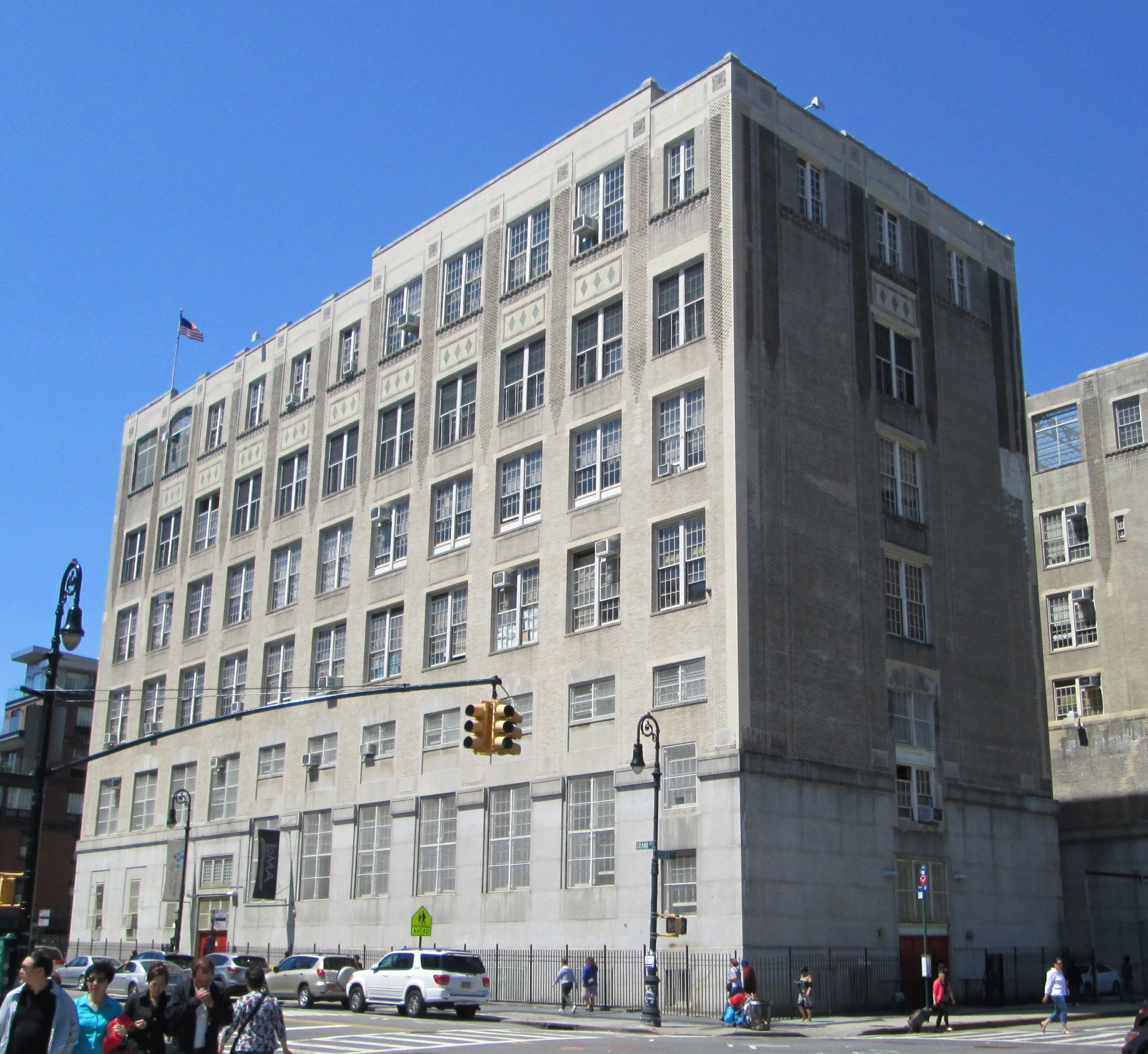 The Seward Park Campus is a "vertical campus" of the New York City Department of Education located at 350 Grand Street at the corner of Essex Street in the Lower East Side neighborhood of Manhattan, New York City. It is formerly the home of Seward Park High School which was closed in 2006, to be replaced with a number of small schools: the High School for Dual Language and Asian Studies, New Design High School, the Essex Street Academy — formerly the High School for History and Communication, the Lower Manhattan Arts Academy, and the Urban Assembly Academy of Government and Law. The building was constructed in 1928-29.